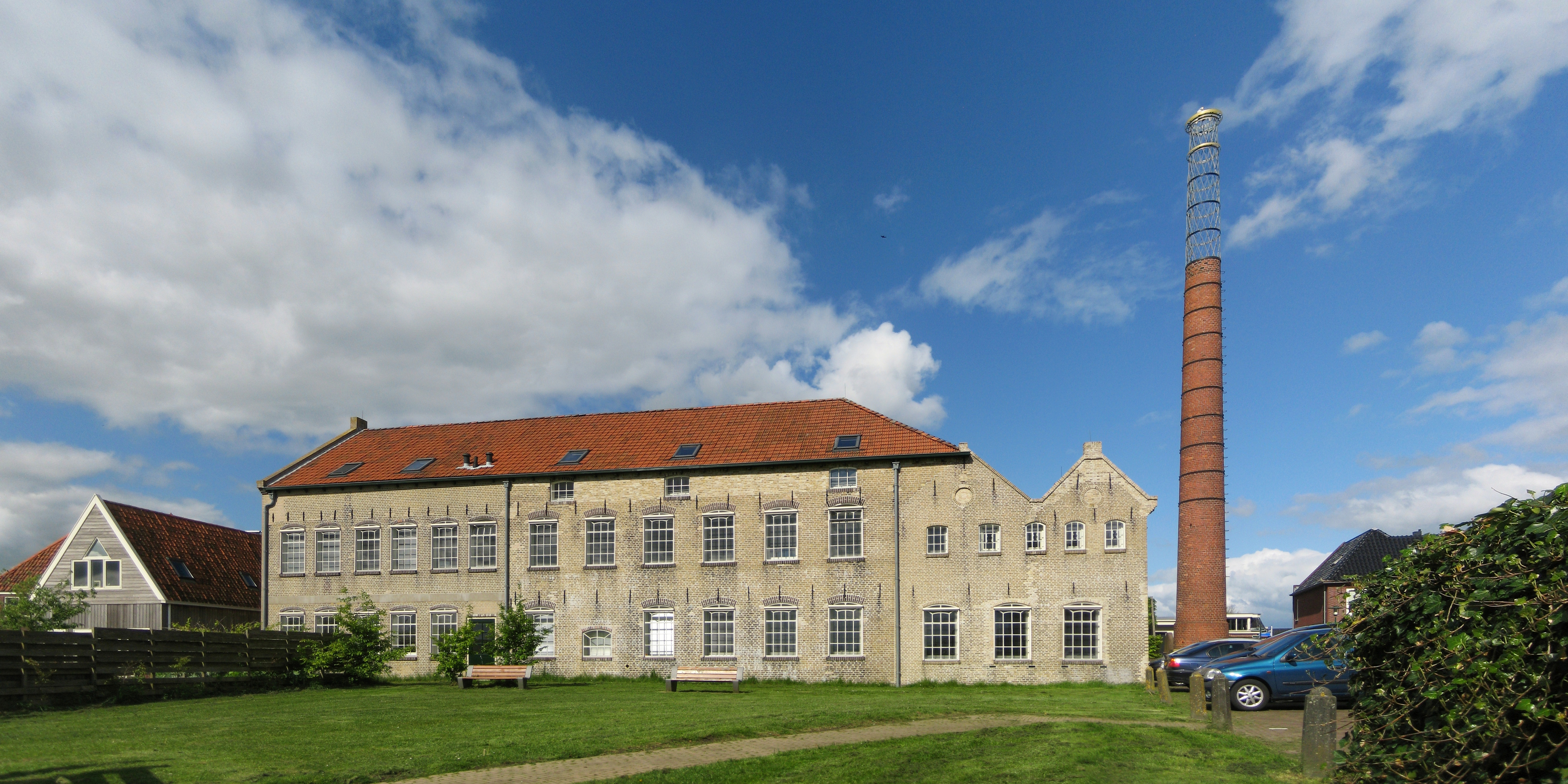 Nooitgedagt, a former factory in IJlst, a city in the Dutch province of Fryslân.